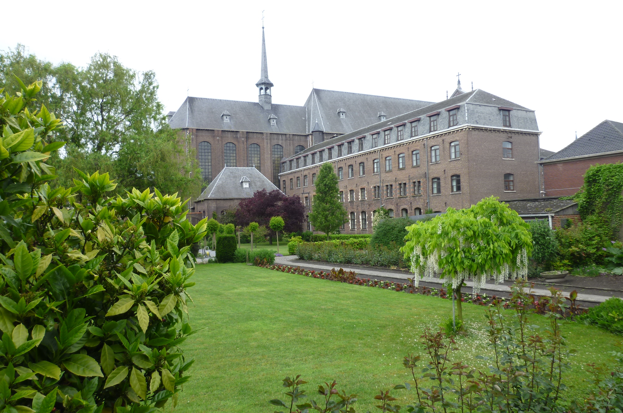 The Minderbroeders Monastery at Sint-Truiden (Saint-Trond), Belgium.